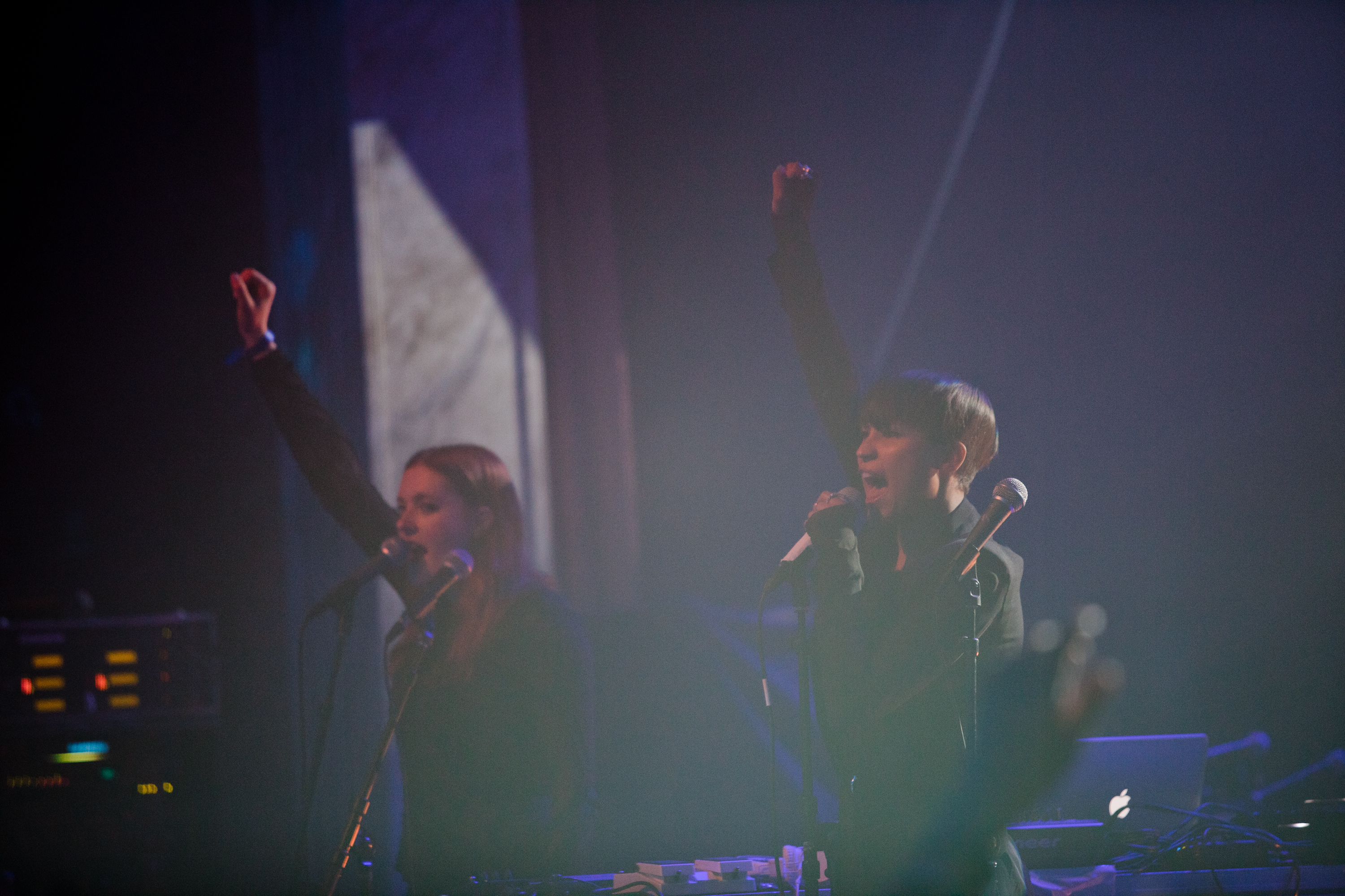 Icona Pop at Peace And Love Festival 2012